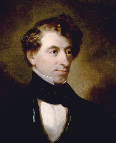 A painted portrait of John A Macdonald, from 1842 or 1843